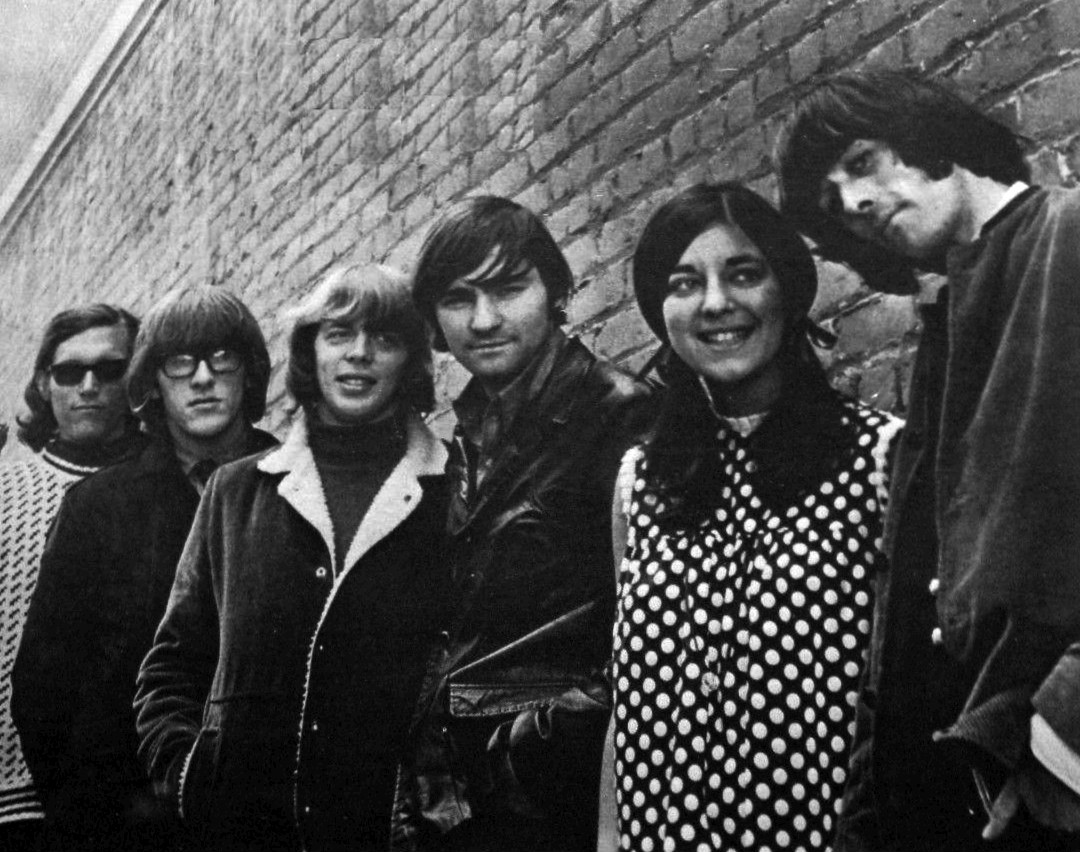 Photo of the group Jefferson Airplane prior to Grace Slick's joining it. From left-Jorma Kaukonen, Paul Kantner, Jack Casady, Marty Balin, Signe Anderson and now Spencer Dryden has replaced Skip Spence as the drummer. The next change to the line-up would be Anderson's leaving and Grace Slick's signing on.